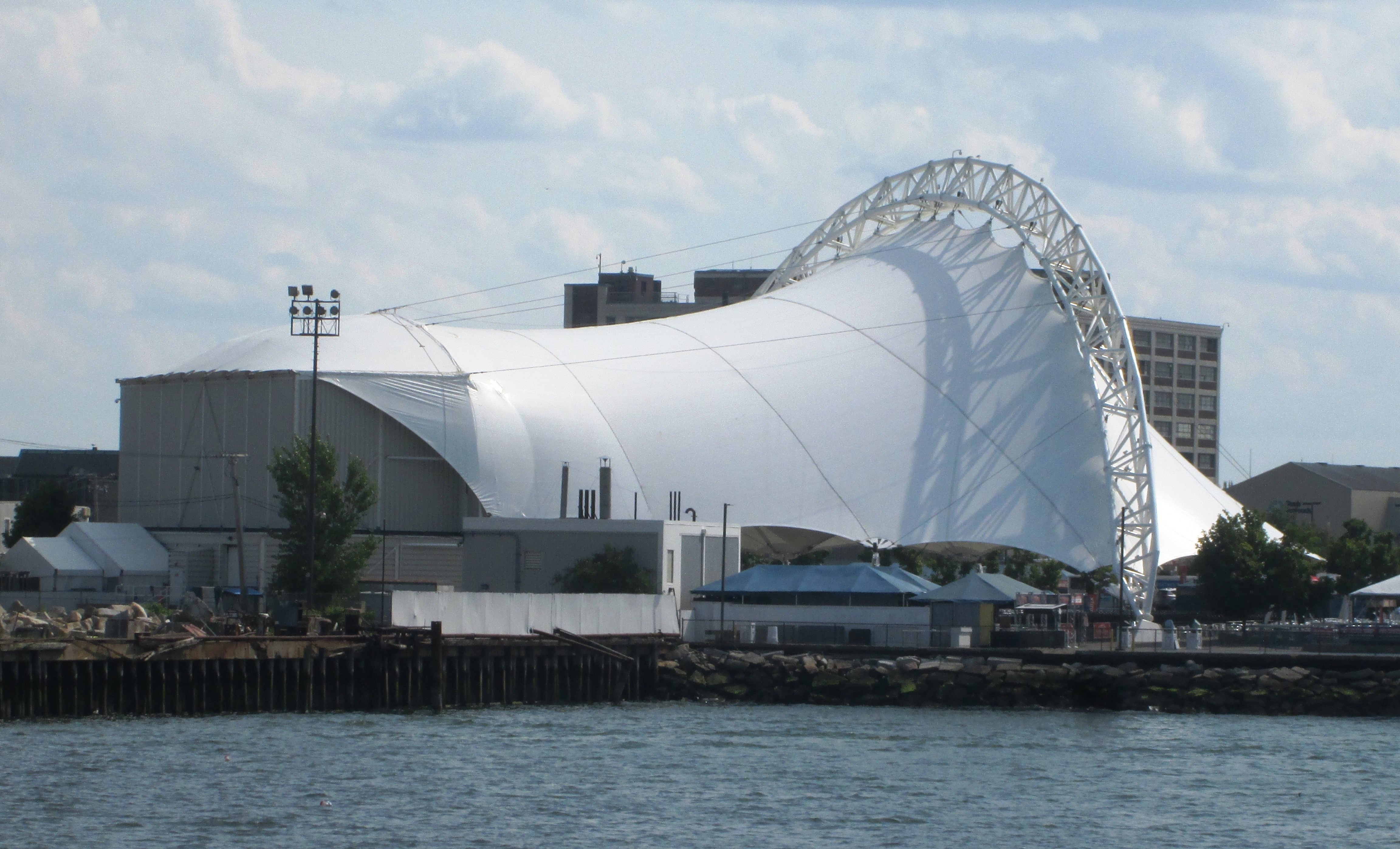 The Rockland Trust Bank Pavilion is an outdoor amphitheater located at 290 Northern Avenue in the Seaport District of Boston, Massachusetts. The venue originally opened in August 1994 near Fan Pier, on the current site of the Moakley US District Courthouse. Due to land rights, the venue closed at the end of its season in 1998 and was relocated to its current location in 1999. The relocated amphitheater opened July 1999 and seats 5,200. The venue's season runs from May until September. Originally called the Haborlights Pavilion, the venue has gone through a number of name changes, primarily due to bank mergers and acquisitions. It has been named, sequentially, the Bank of Boston Pavilion, BankBoston Pavilion (1996), FleetBoston Pavilion (1999), Bank of America Pavilion (2004), Blue Hills Bank Pavilion (2014), and most recently Rockland Trust Bank Pavilion (2018). The Pavilion was bought by Live Nation in 1999. (Partial source: )